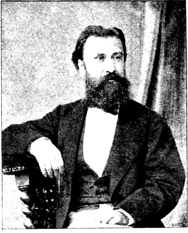 Ioannis Georgantopoulos (?-1889): Greek lawyer and journalist